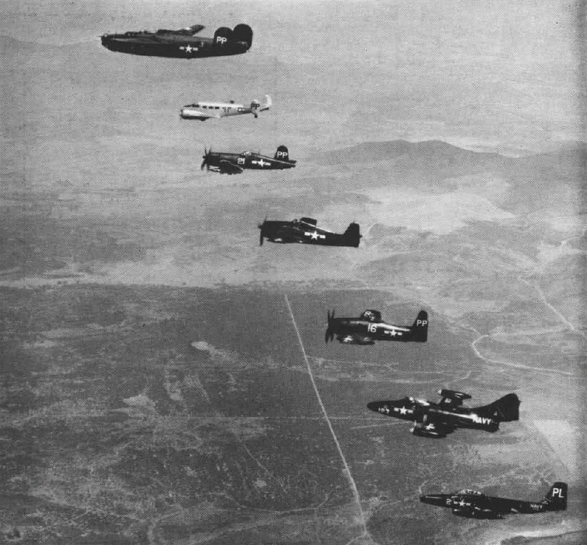 A photo of the U.S. Navy photo reconnaissance planes in use in the early 1950s. From top to bottom: Consolidated P4Y-1P Liberator, Beech SNB-2P, Vought F4U-5P Corsair, Grumman F6F-5P Hellcat, Grumman F8F-2P Bearcat, Grumman F9F-5P Panther, and McDonnell F2H-2P Banshee. Aircraft with the tail code "PP" belonged to composite squadron VC-61 Eyes of the Fleet, aircraft with the tail code "PL" to VC-62 Fighting Photos.